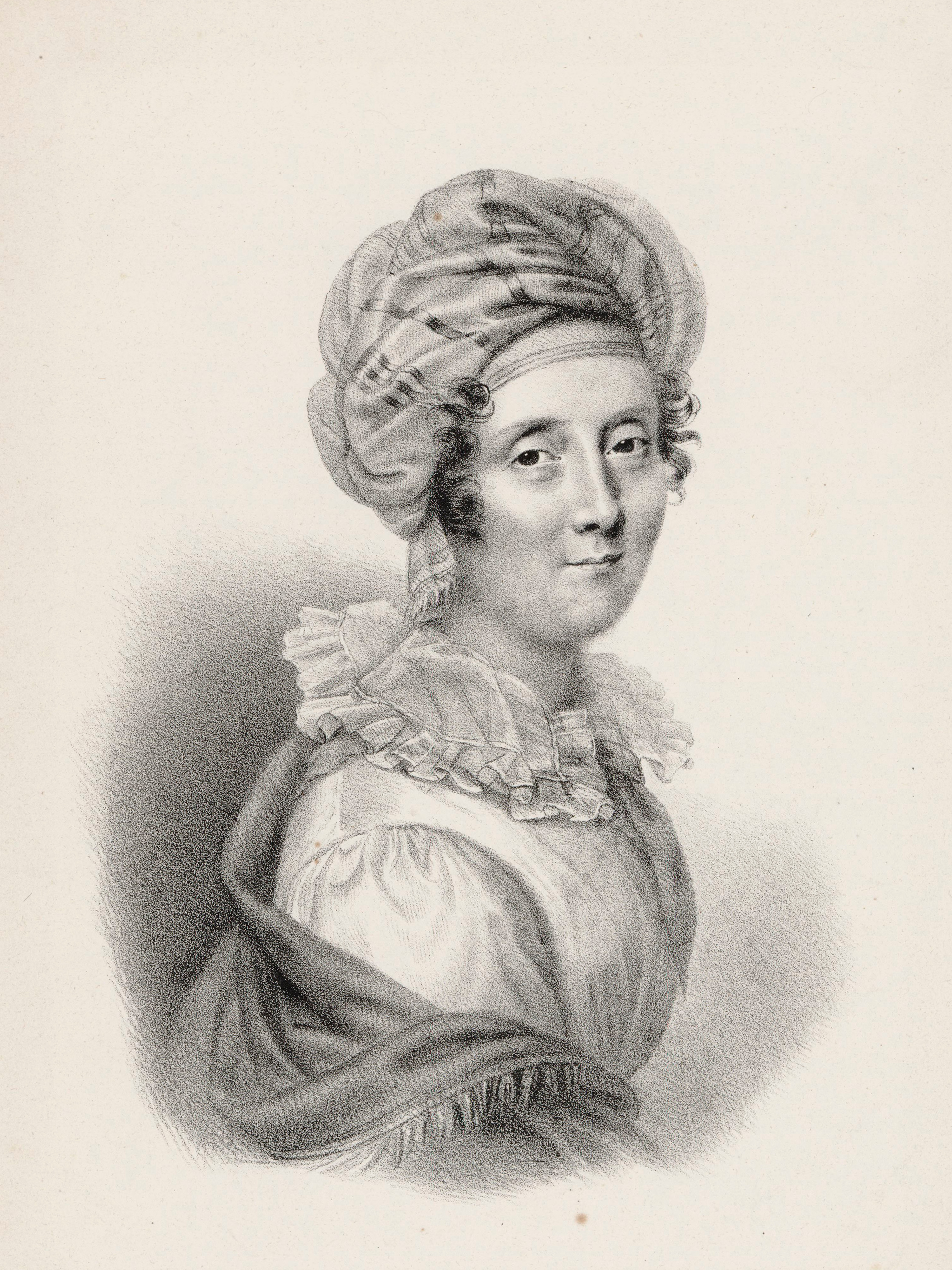 Portrait of Julie Candeille (1767-1834), French actress